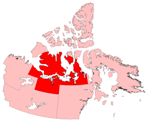 Kitikmeot Region, Northwest Territories, Canada (as existing before 1999)